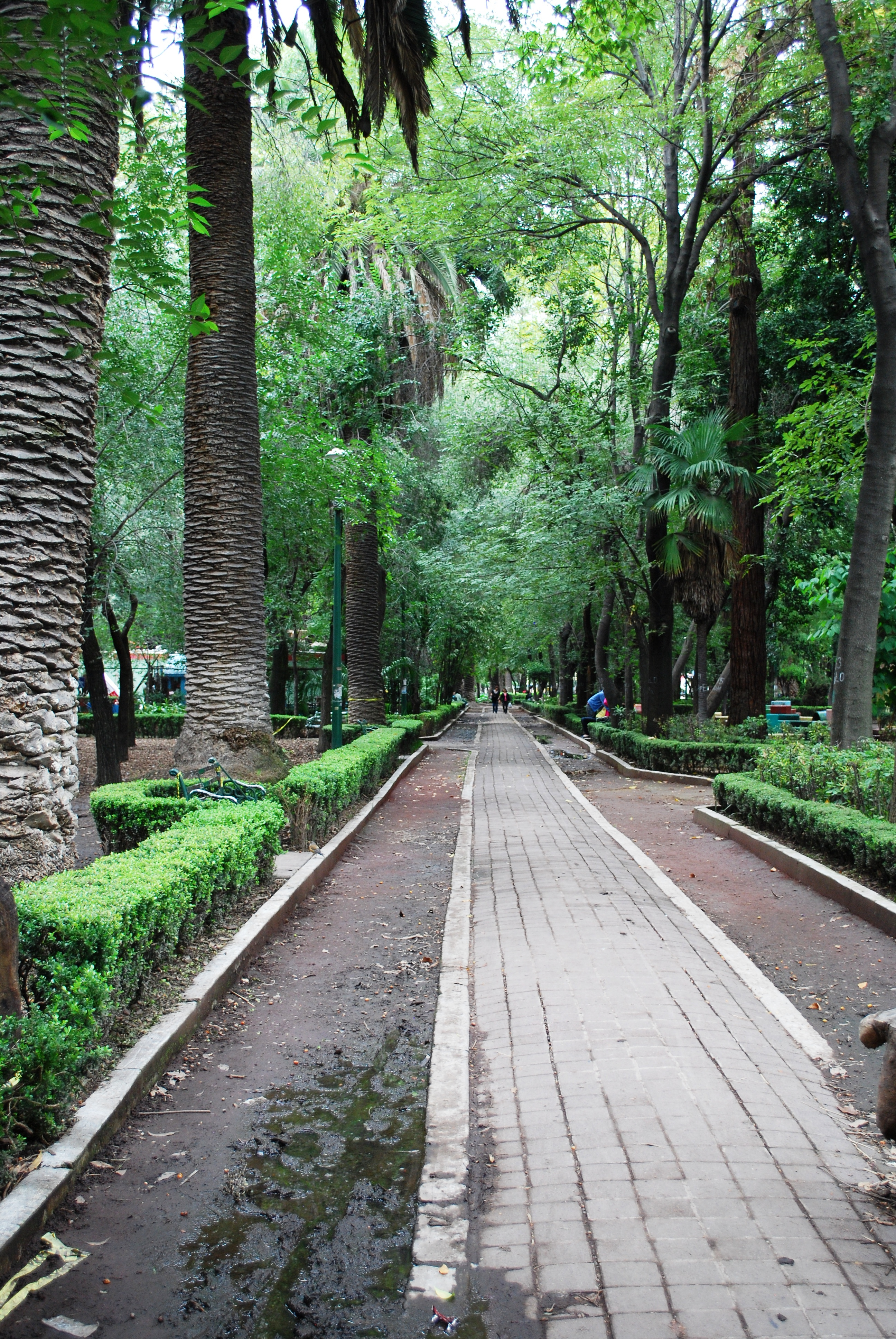 path in the Jardin Ramon Lopez Velvarde in the east section of the Centro Urbano Benito Juarez in Mexico City